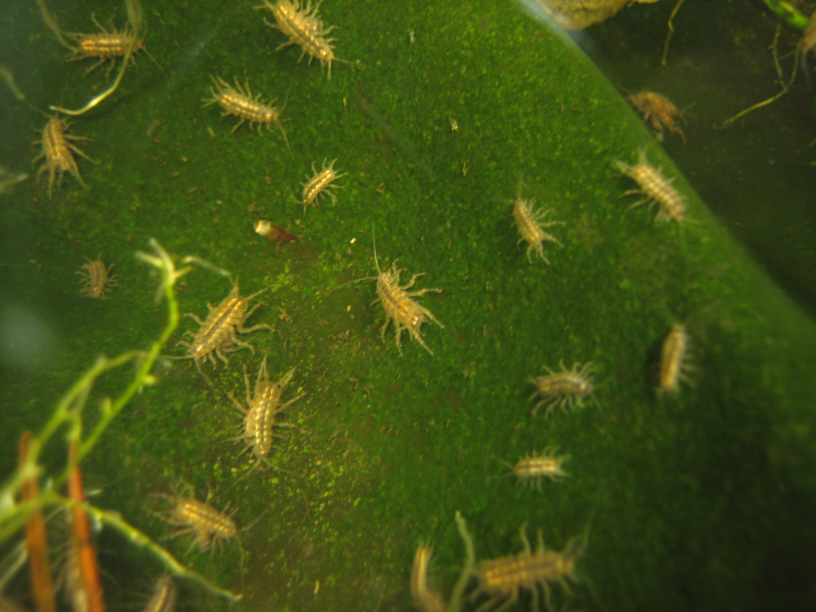 Asellus aquaticus, ca. 10mm - 20mm long